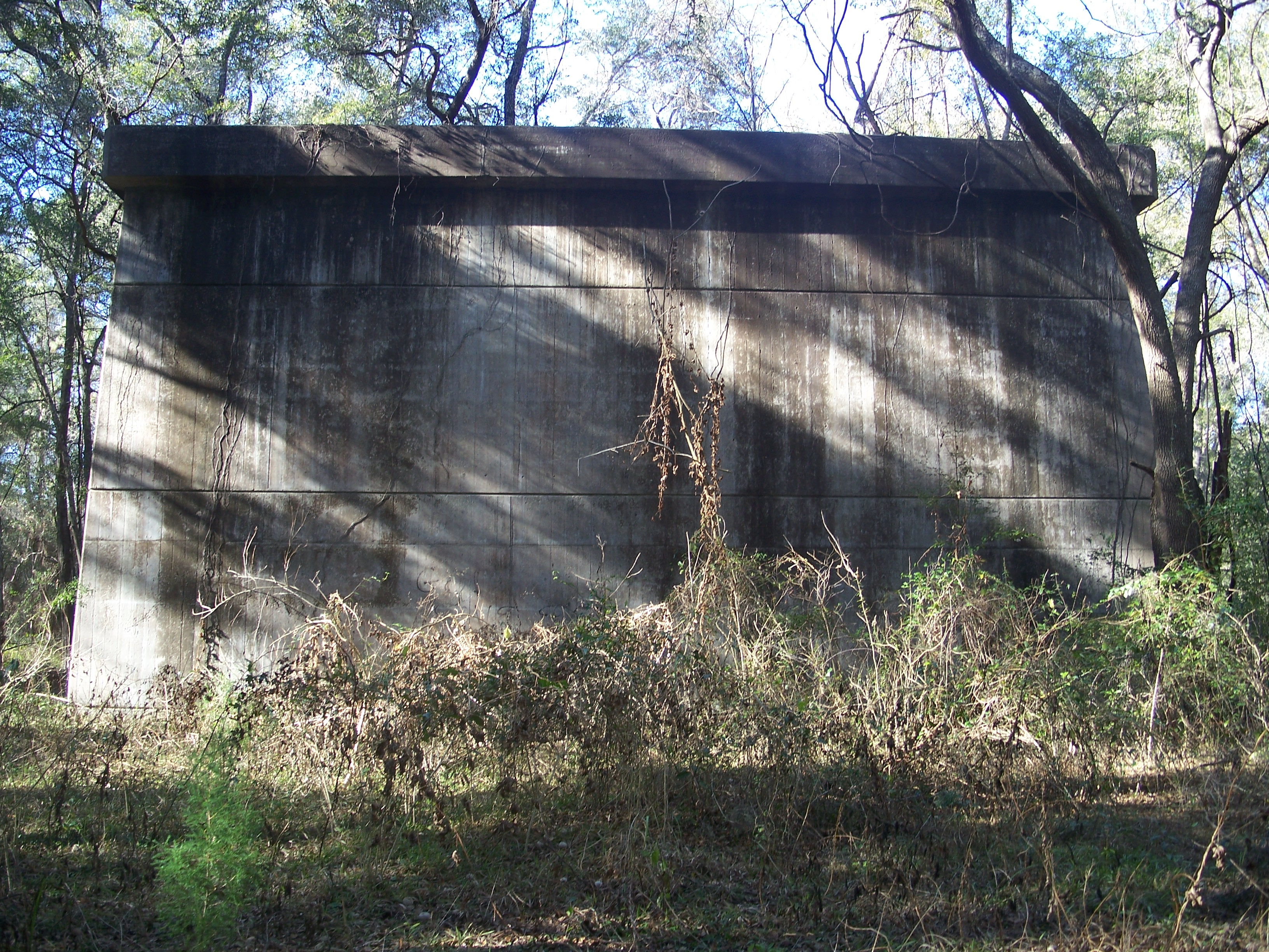 Marion County, Florida: Cross Florida Barge Canal: One of the supports for the bridge over the Canal. The bridge was never completed, since the building of the canal was stopped. This structure is in a grassy median on US 441 in Santos, behind the County Sheriff's station.